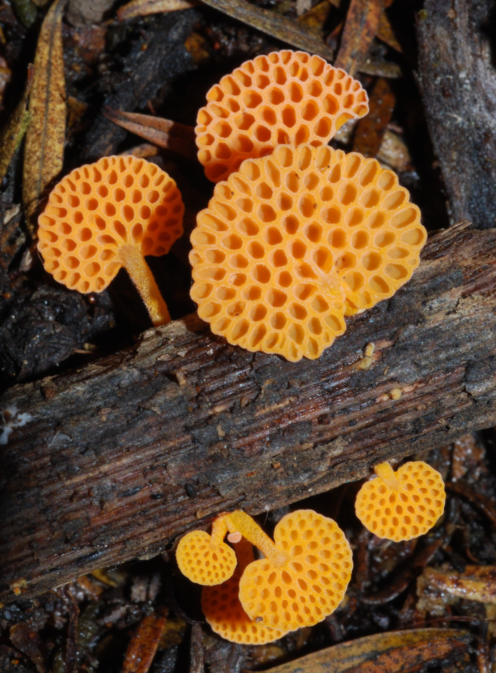 Favolaschia calocera Location: Auckland, New Zealand Notes: Found on fallen branches and logs in native New Zealand forest.